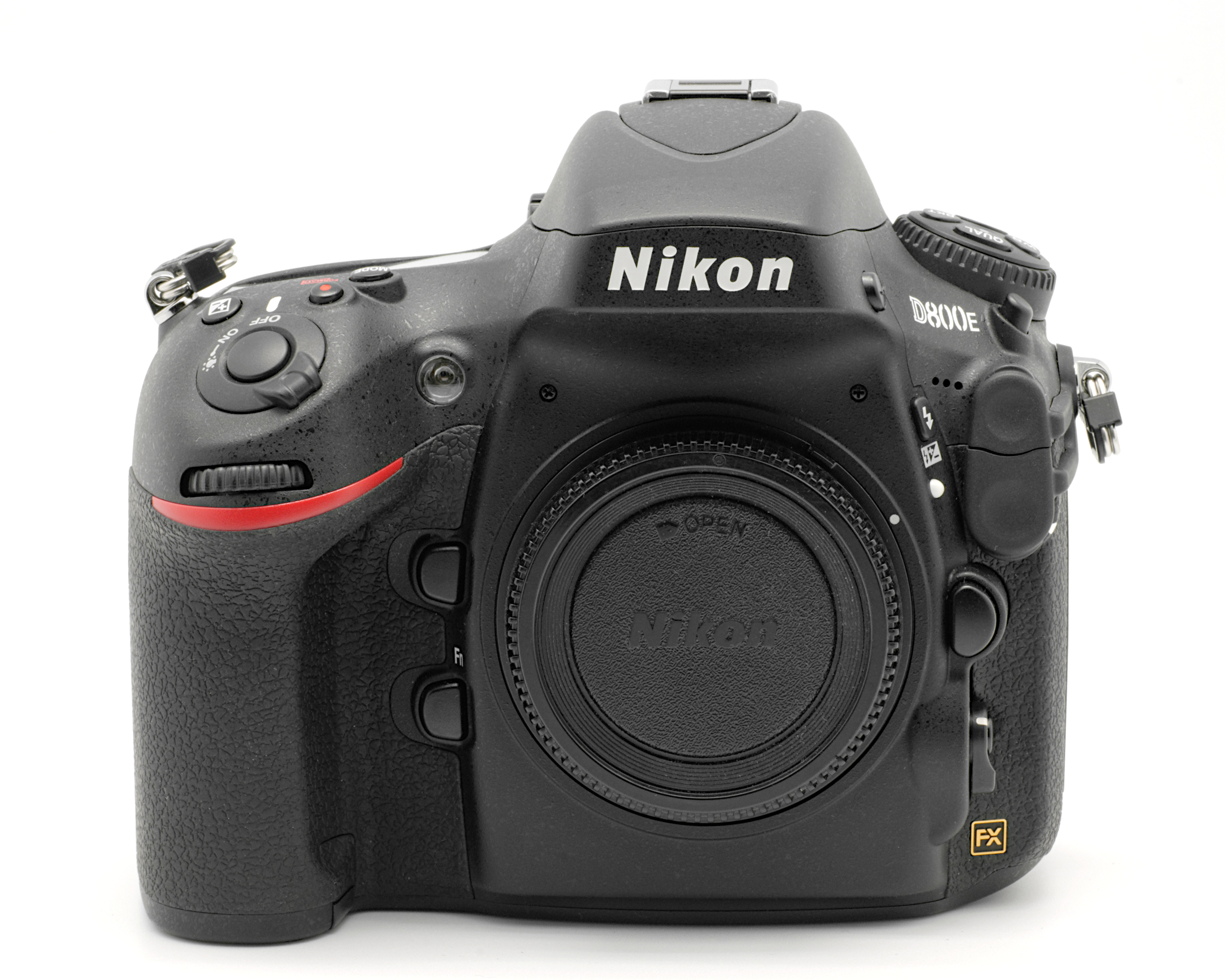 Front view of a Nikon D800E.